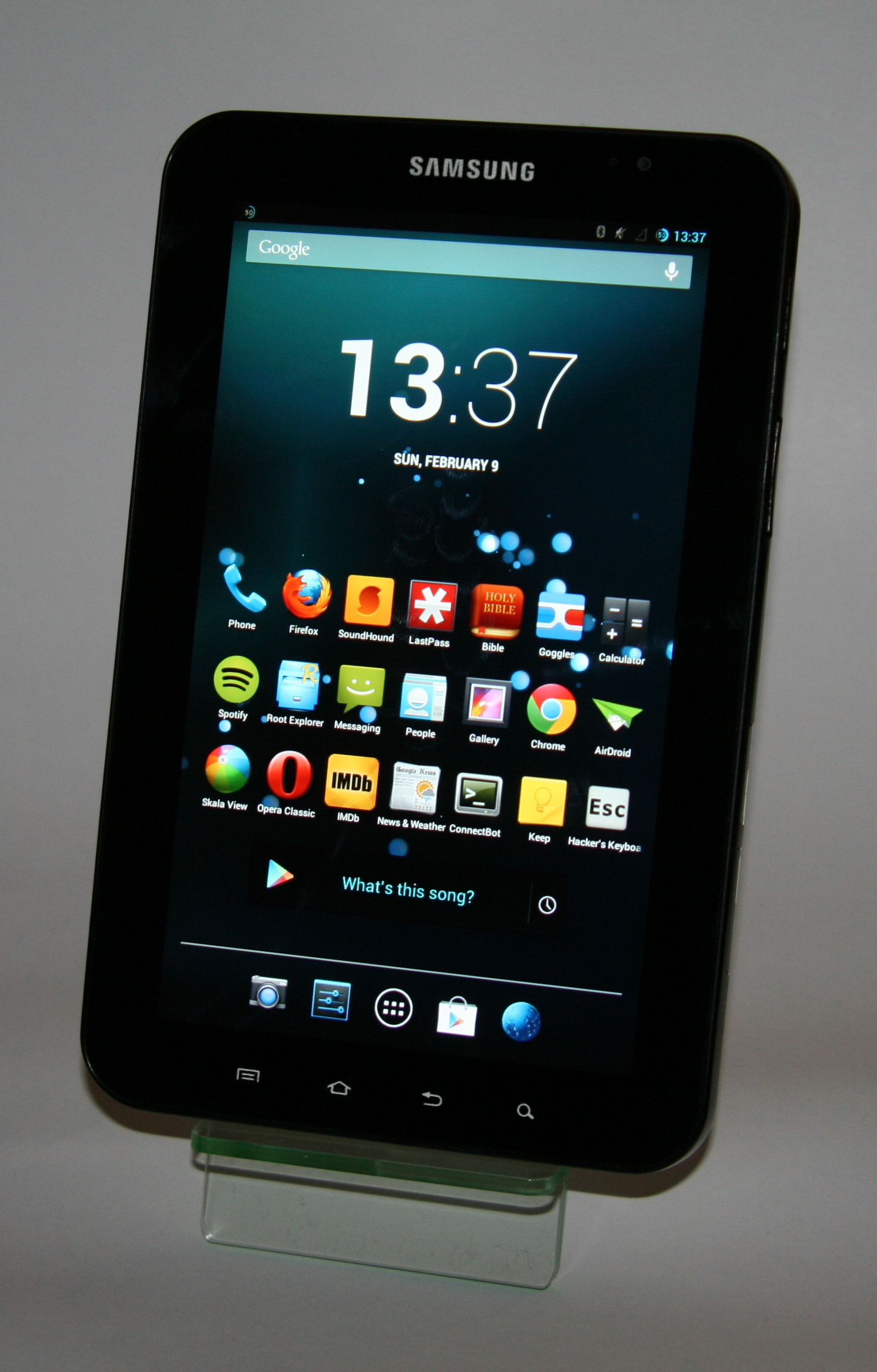 A Samsung Galaxy Tab 7.0. Shown with CyanogenMod custom ROM.